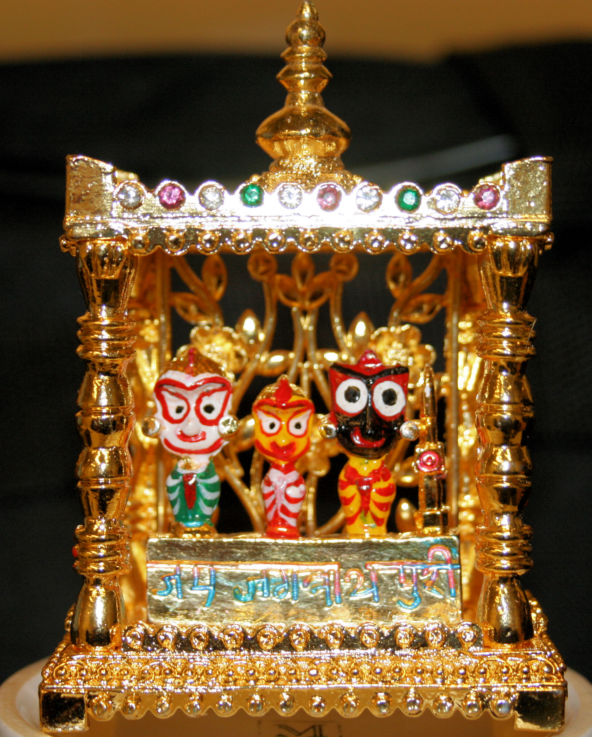 Statue of Lord Jagannath From Puri